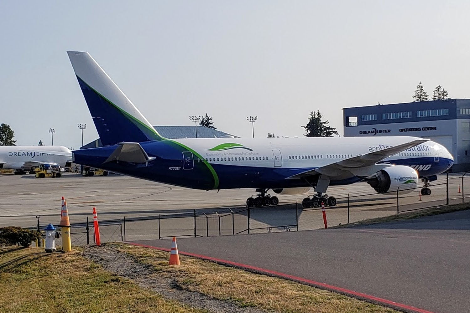 Photo of a Boeing 777-200 airplane painted in ecoDemonstrator livery parked at the Future of Flight Museum in Everett, WA. This airplane, customer effectivity code WA249, was purchased by the Boeing Company for use in the 2019 ecoDemonstrator flight test program, "Sustainability and innovation for the future". In the background: Boeing 747 "Dreamlifter" Large Cargo Freighter and the Dreamlifter Operations Center.